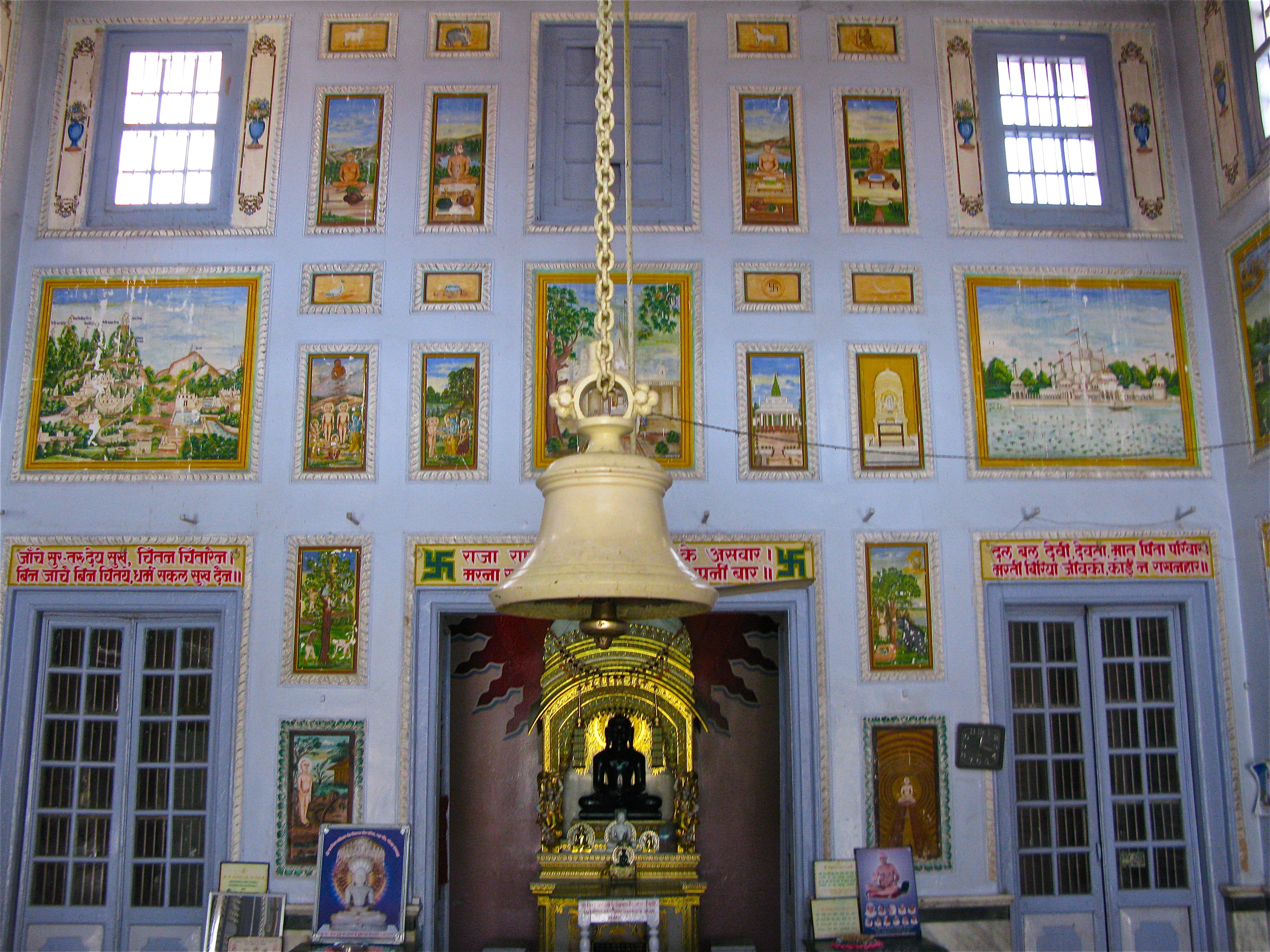 Interior of the Jain Temple dedicated to Shreyansanath, the eleventh Jain Tirthankar, Sarnath, considered his birth place.